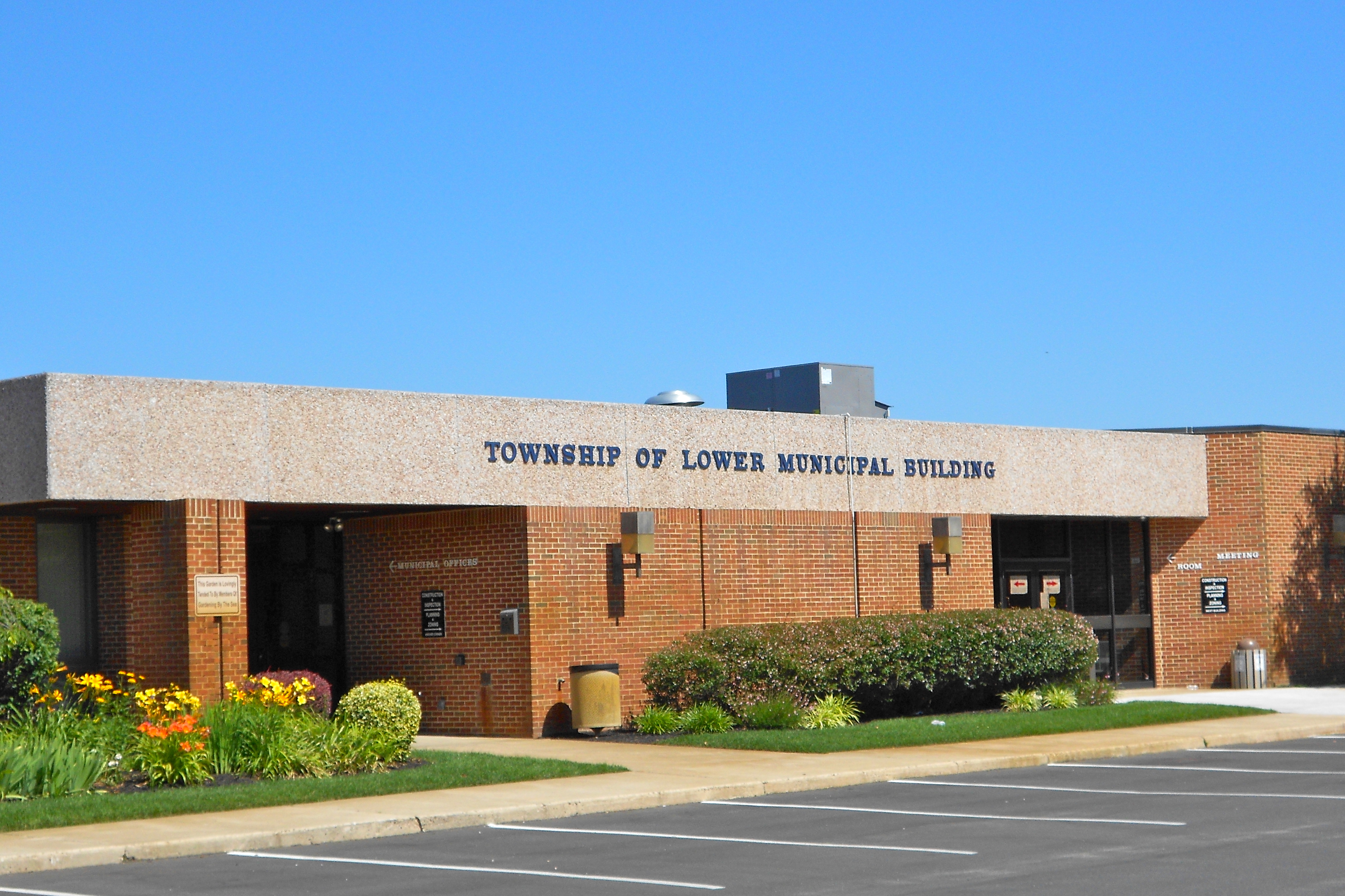 Township of Lower Municipal Building in Cape May County, New Jersey. That is, this is the municipal building of Lower Township, NJ. On Bayshore Road in the area called the Villas. "Lower Township" is quite appropriate here, as it is the southernmost township in New Jersey.